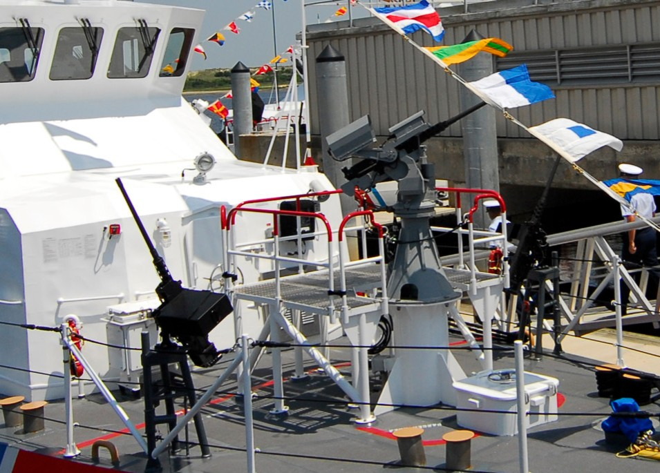 Newly commissioned USCGC Sea Dog, showing all three machine guns. Original caption: “Crewmembers from the newly commissioned 87-foot Coast Guard Cutter Sea Dog, homeported in Kings Bay, Ga., board the cutter for the first time since assuming the watch, Thursday, July 2, 2009. The Sea Dog is joining the Coast Guard Cutter Sea Dragon to assist in providing security to the Navy's submarines transiting into and out of Kings Bay. (U.S. Coast Guard photo/ Petty Officer 3rd Class Cindy Beckert)”